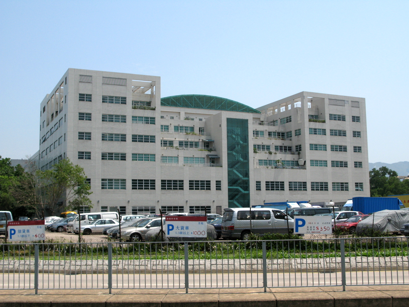 South China Morining Post Office